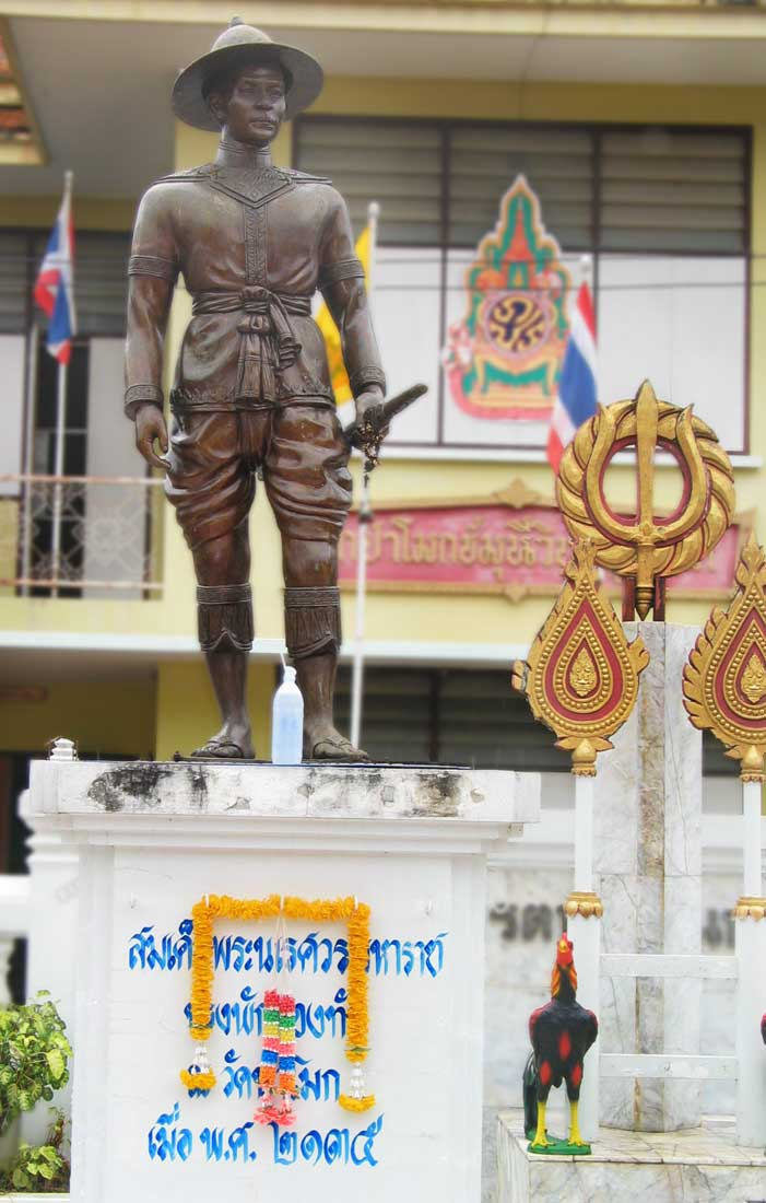 Statue of King Naresuan, Wat Pha Mok, Ang Thong, Thailand